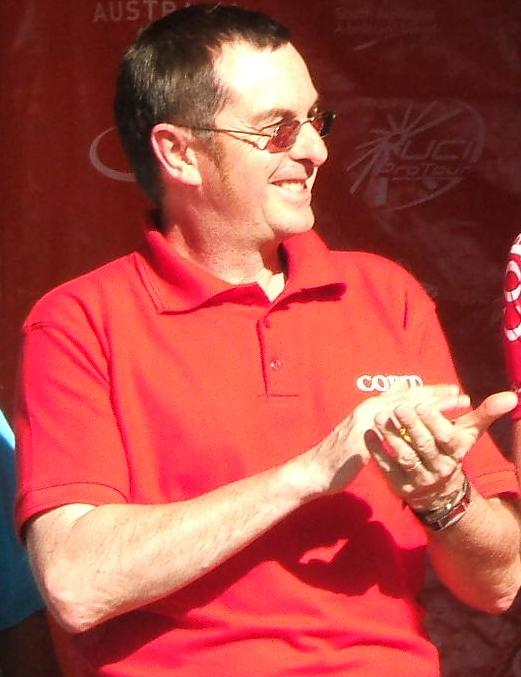 Named cyclist at the en:2009 Tour Down Under team presentation